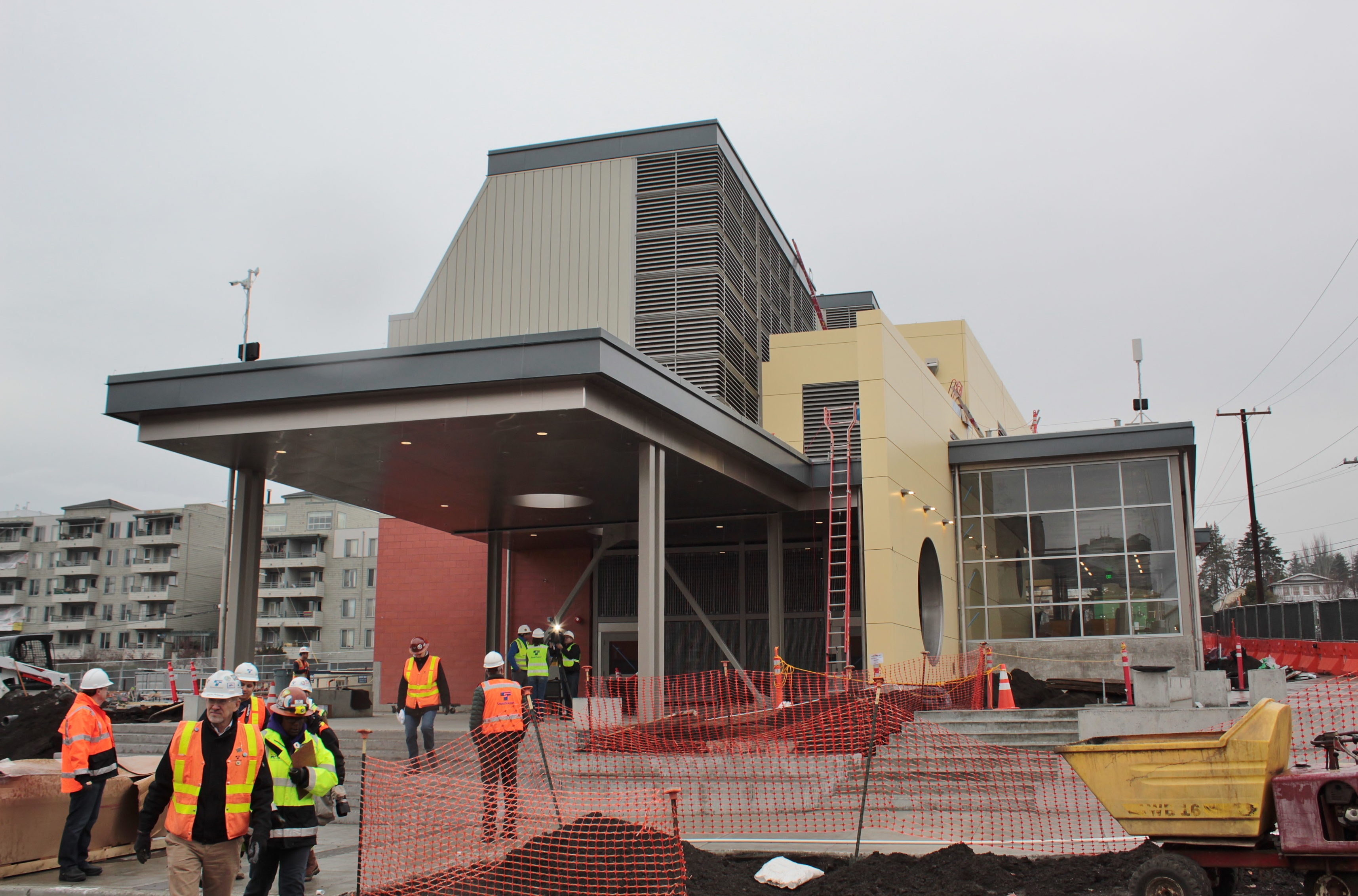 The north entrance headhouse at Roosevelt Station, a future light rail station in Seattle, Washington. This photo was taken during a media tour of the station to celebrate substantial completion.